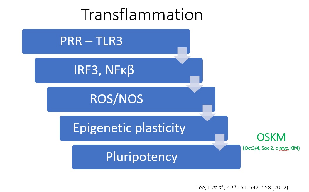 During reprogramming of cells with viral vectors, TLR3 is activated and innate immune response is triggered. Subsequent activation of NFκβ and the associated formation of oxygen radicals is involved in chromatin remodeling and facilitates the introduction of transcription factors (OSKM) on the genes.